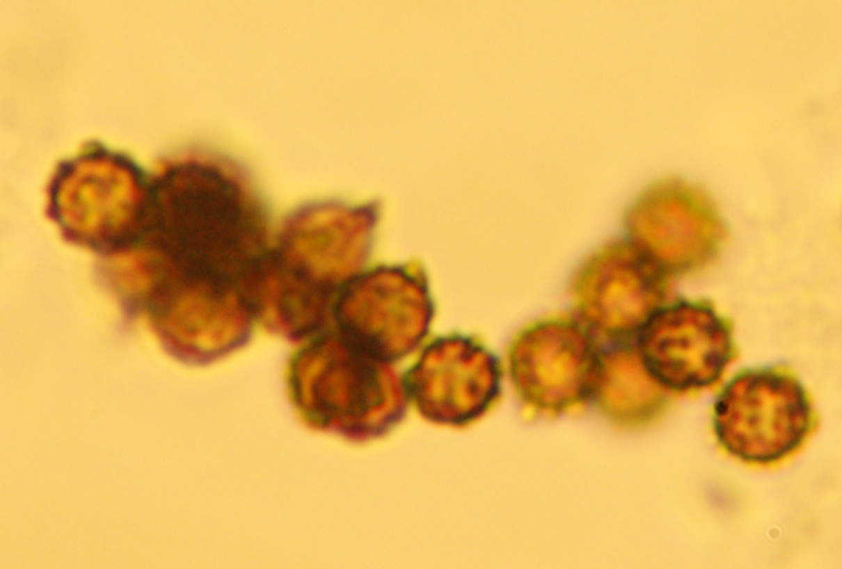 The basidiospores of the earthstar fungus Geastrum quadrifidum Pers. The specimen from which spores were obtained was collected from Crowsnest Pass, Alberta, Canada. Original photo cropped by uploader.